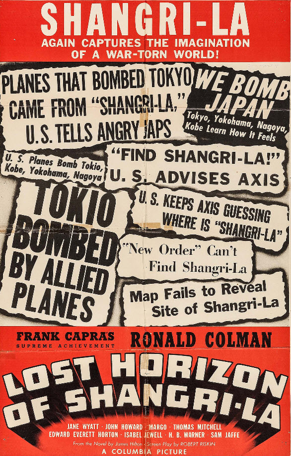 LOST HORIZON OF SHANGRI-LA (advertisement from 1942)